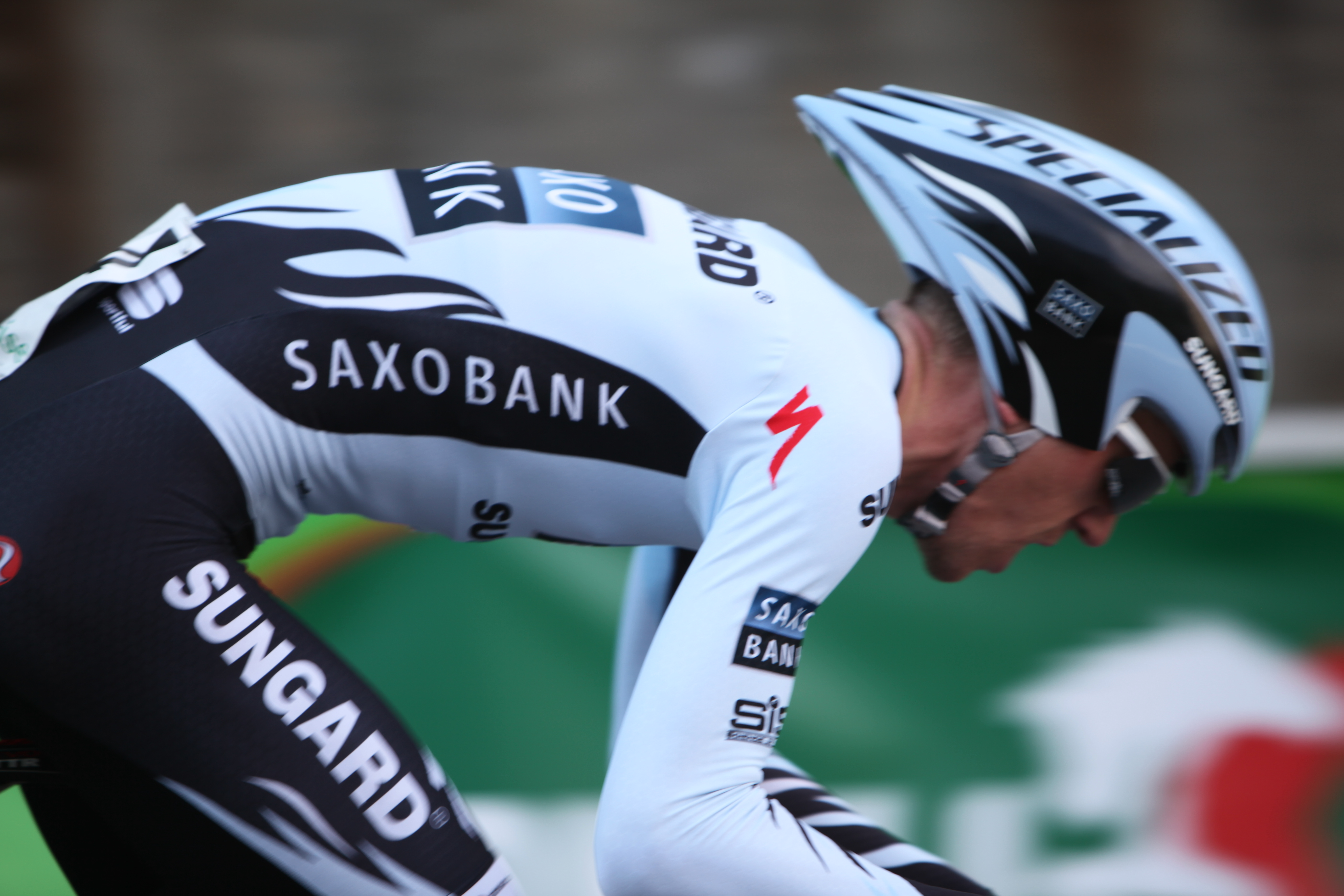 Chris Anker Sorensen at the prologue of the Tour de Romandie 2011